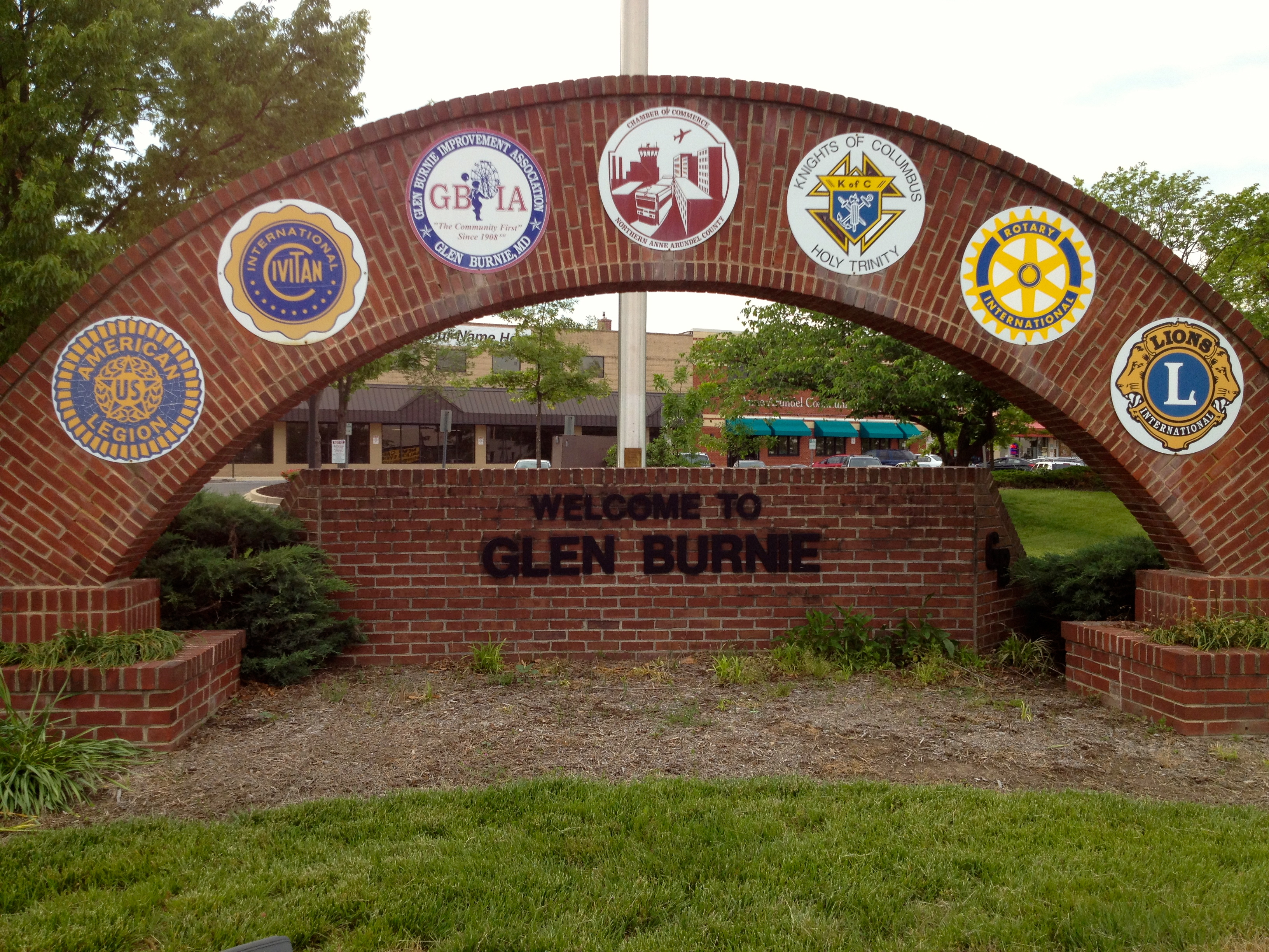 Sign, Welcome to Glen Burnie, Maryland, with plaques for local civic organizations.